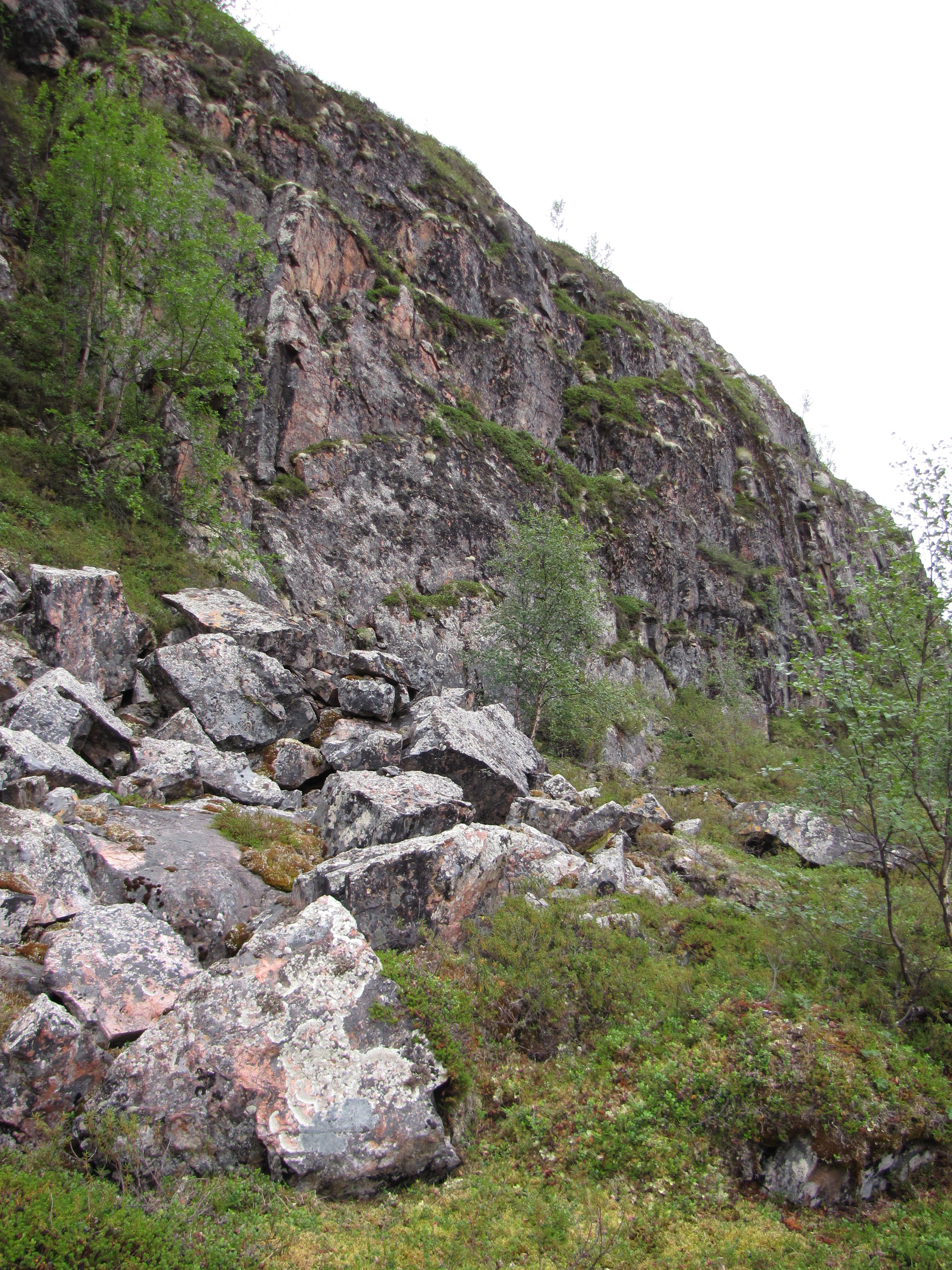 sheer cliffs of pahta